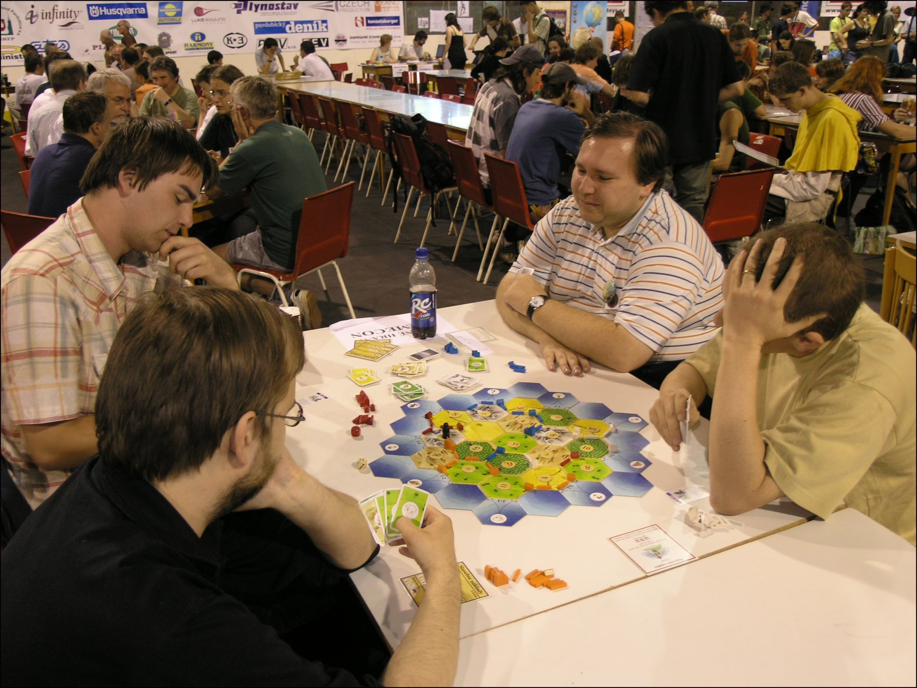 GameCon 2007 in Pardubice - Settlers of Catan